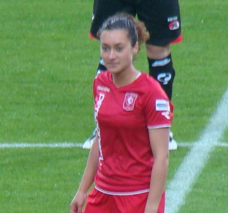 FC Twente player Amber van der Heijde